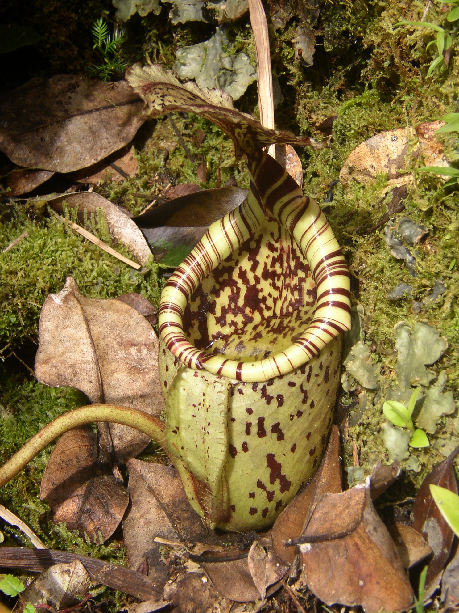 Photo taken by me in natural habitat. Species: Nepenthes burbidgeae